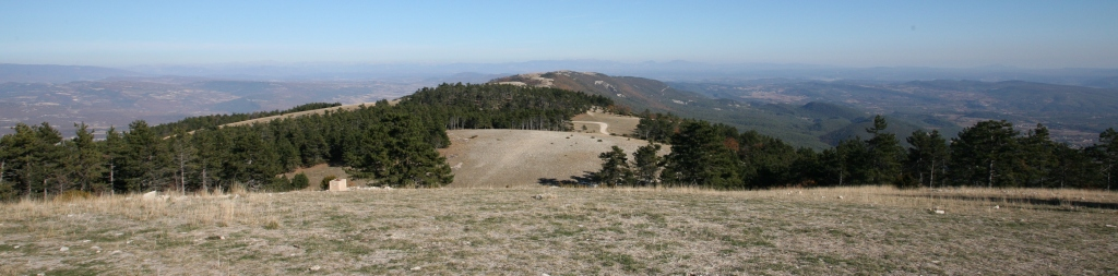 the south part of the "Grand" Luberon hills, France